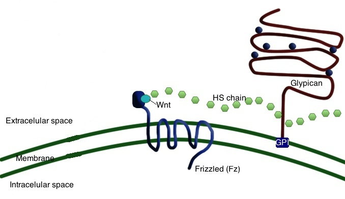 Dally acts as a correceptor of the Wng